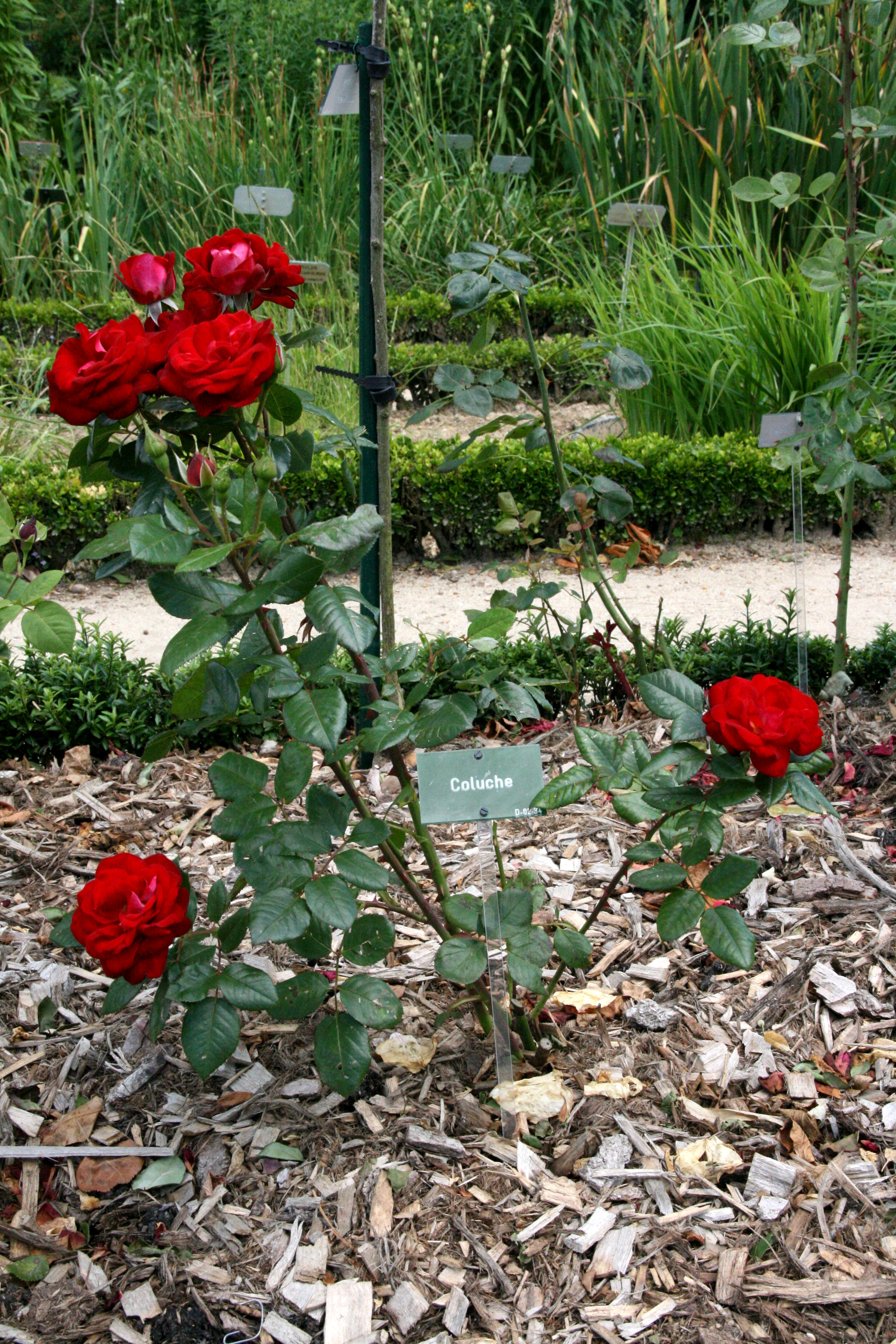 A "Coluche" rosebush, in Thabor park, Rennes, France.